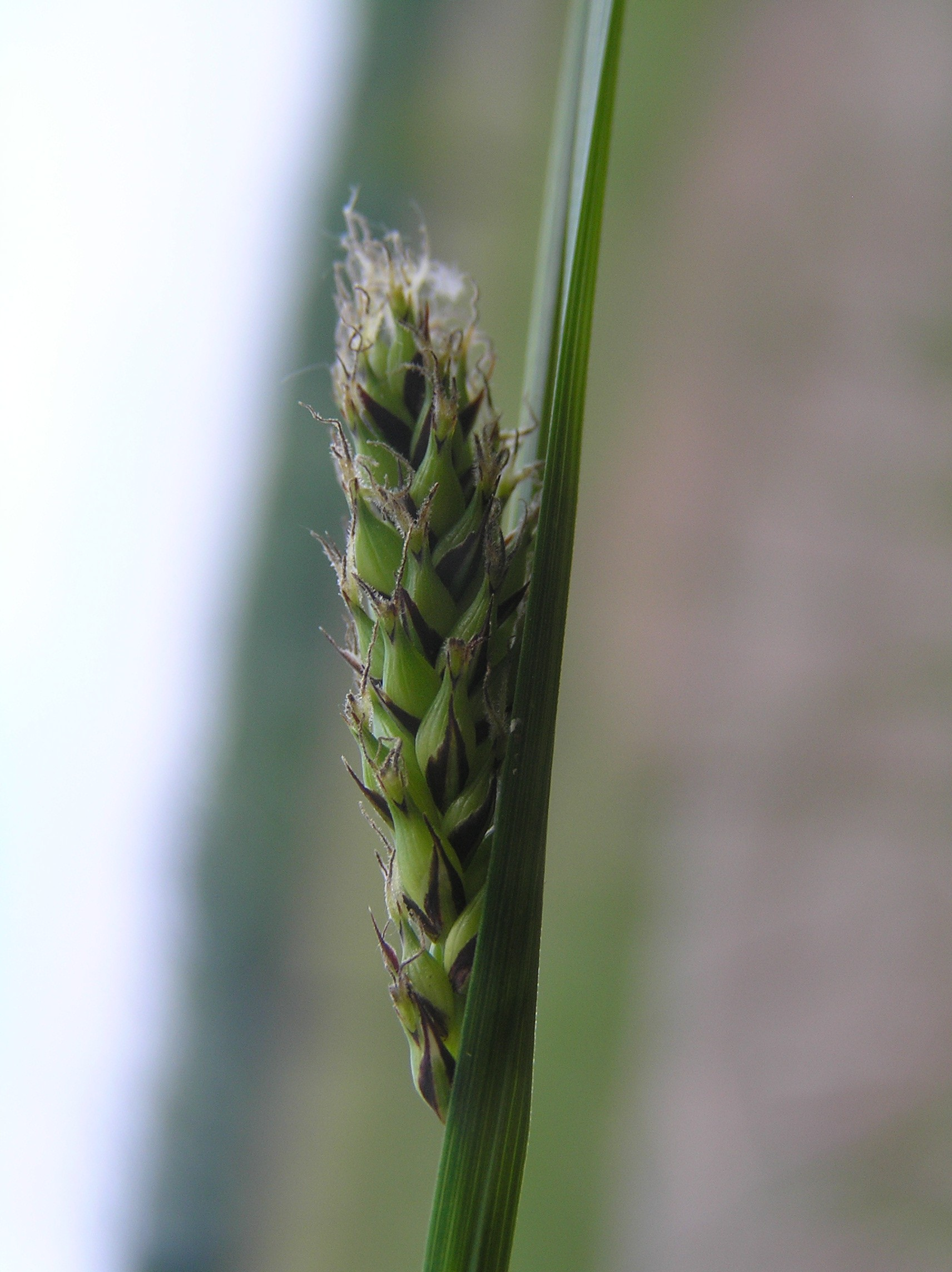 Carex melanostachya, Břeclav, Southern Moravia, Czech Republic